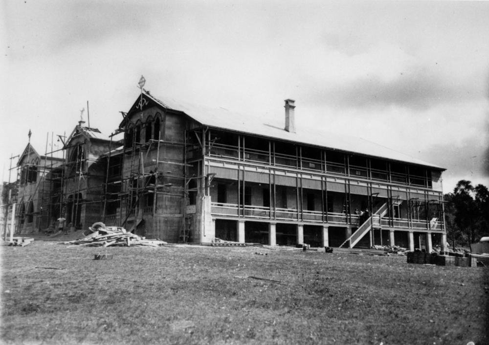 Mount St. Bernard College in Herberton, Queensland, ca. 1919 Catholic college buildings under construction in Herberton.